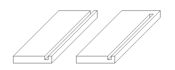 Through groove (left) and stopped groove. Image by SilentC